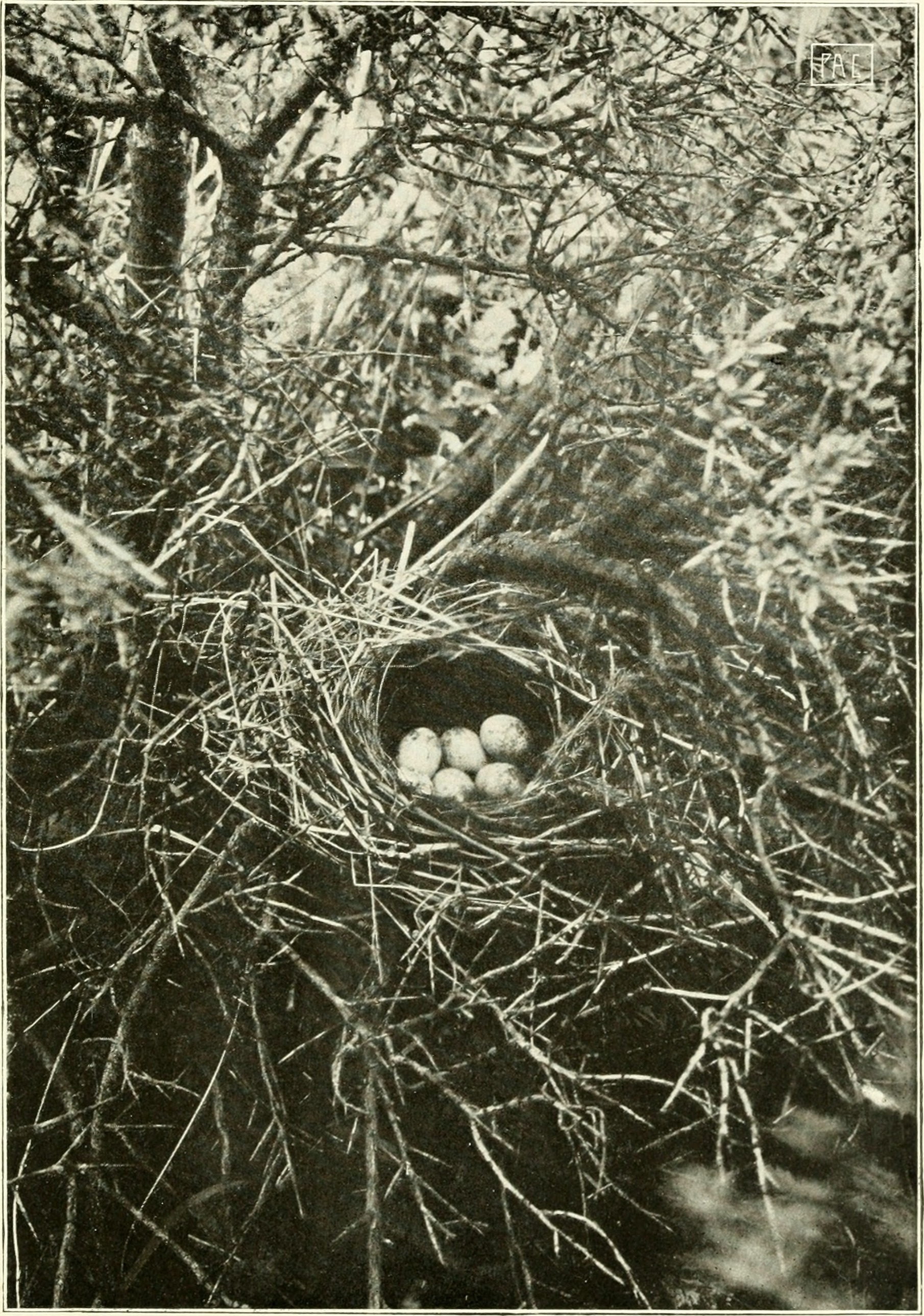 Title: De jacht met de camera; Year: 1909 (1900s) Authors: Tepe, Richard; Richmond, Charles Wallace, 1868-1932 DSI Subjects: Birds Publisher: Nijmegen : Boeken kunstdrukkerij P. A. Geurts Text Appearing Before Image: PLAAT 14 DE (AC(ir MET DE CAMERA Text Appearing After Image: Nest en eieren van:den Grauwen Klauwier (Laniu: collurio) (L.) Jachtduinen te Bloernendaal 22 A'.ei 1905.